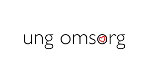 Ung Omsorg, loggo